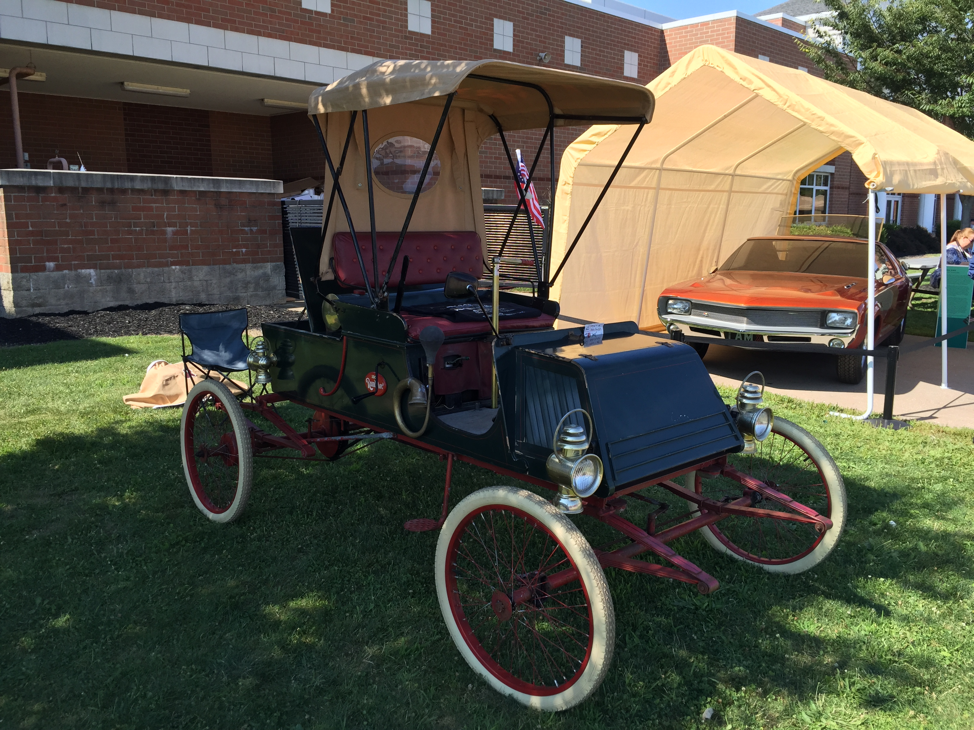 1950-1902 Rambler Runabout. Picture taken at the American Motors Owners Association (AMO) annual convention that was held July 2015 near Cleveland, Ohio.